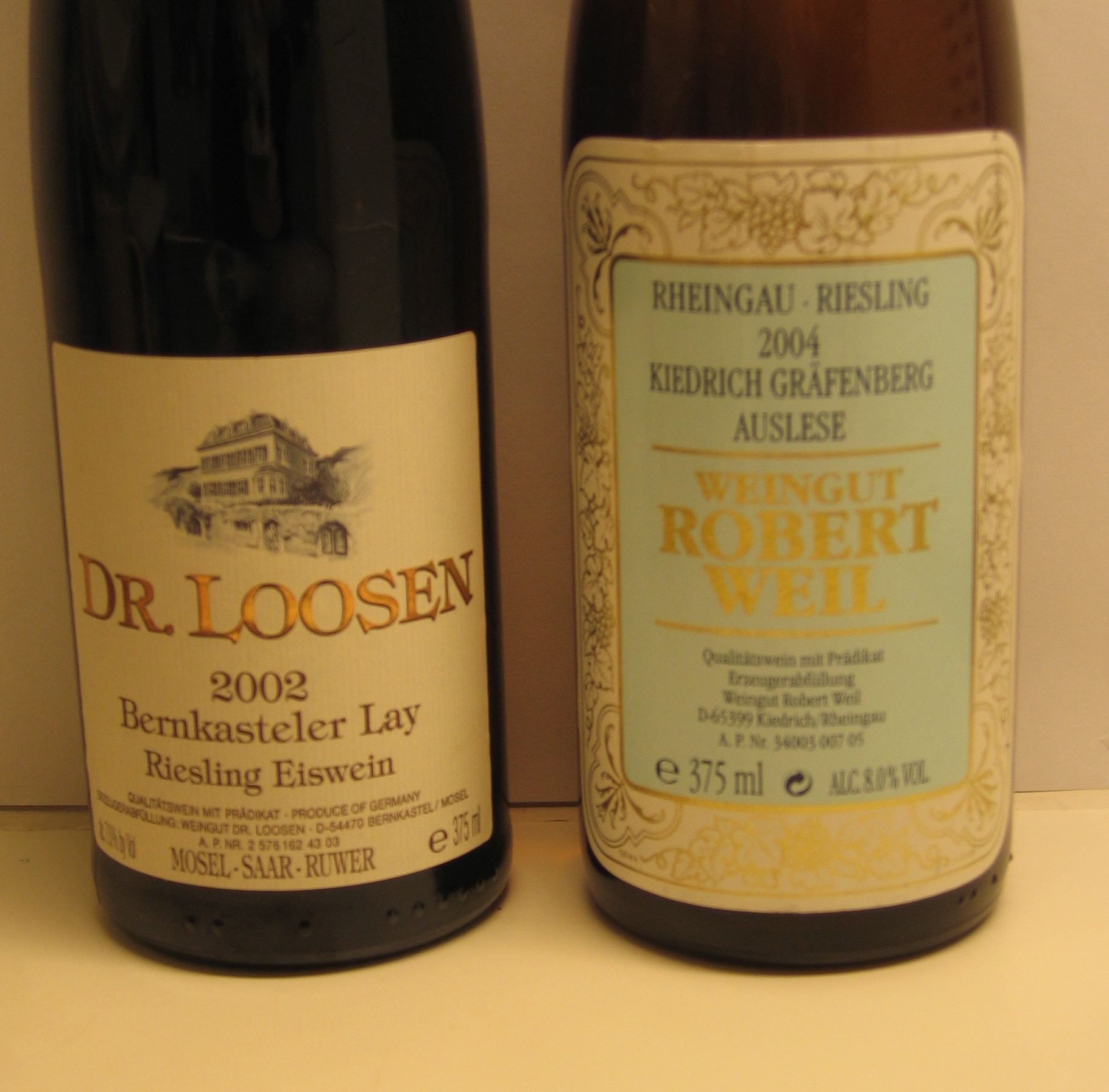 Wine bottles from Dr. Loosen (Mosel) and Robert Weil (Rheingau) showing typical German wine labels